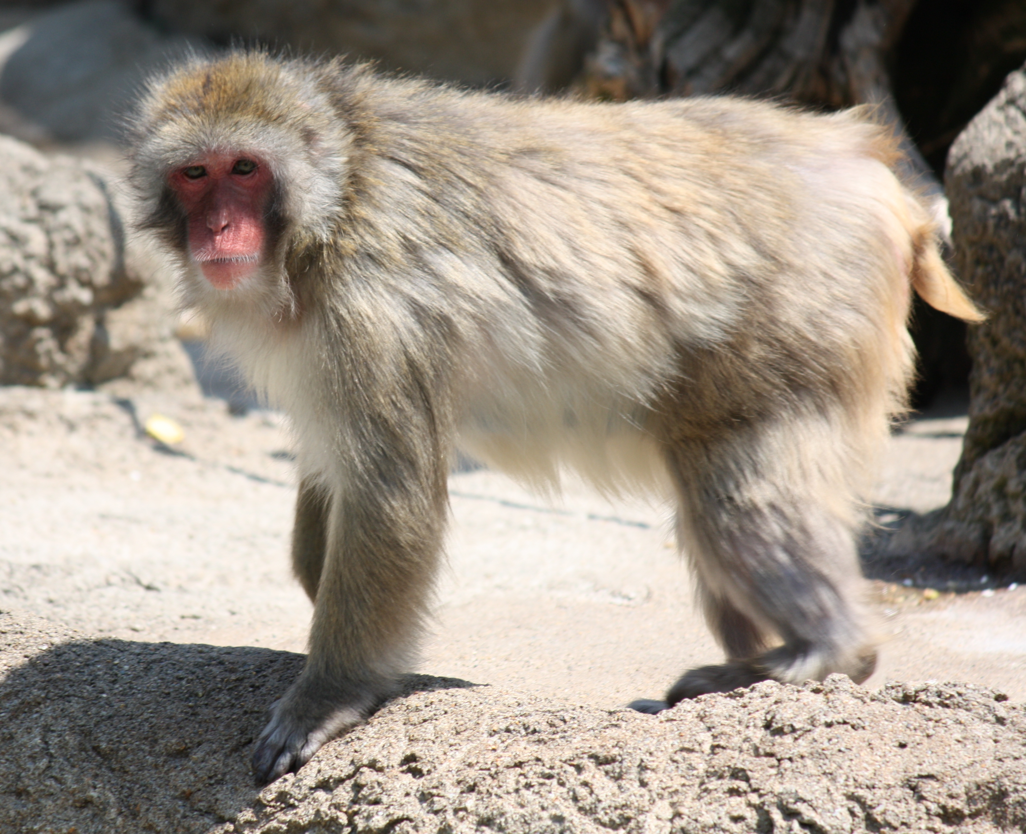 Japanese Macaque Macaca fuscata at Cincinnati Zoo